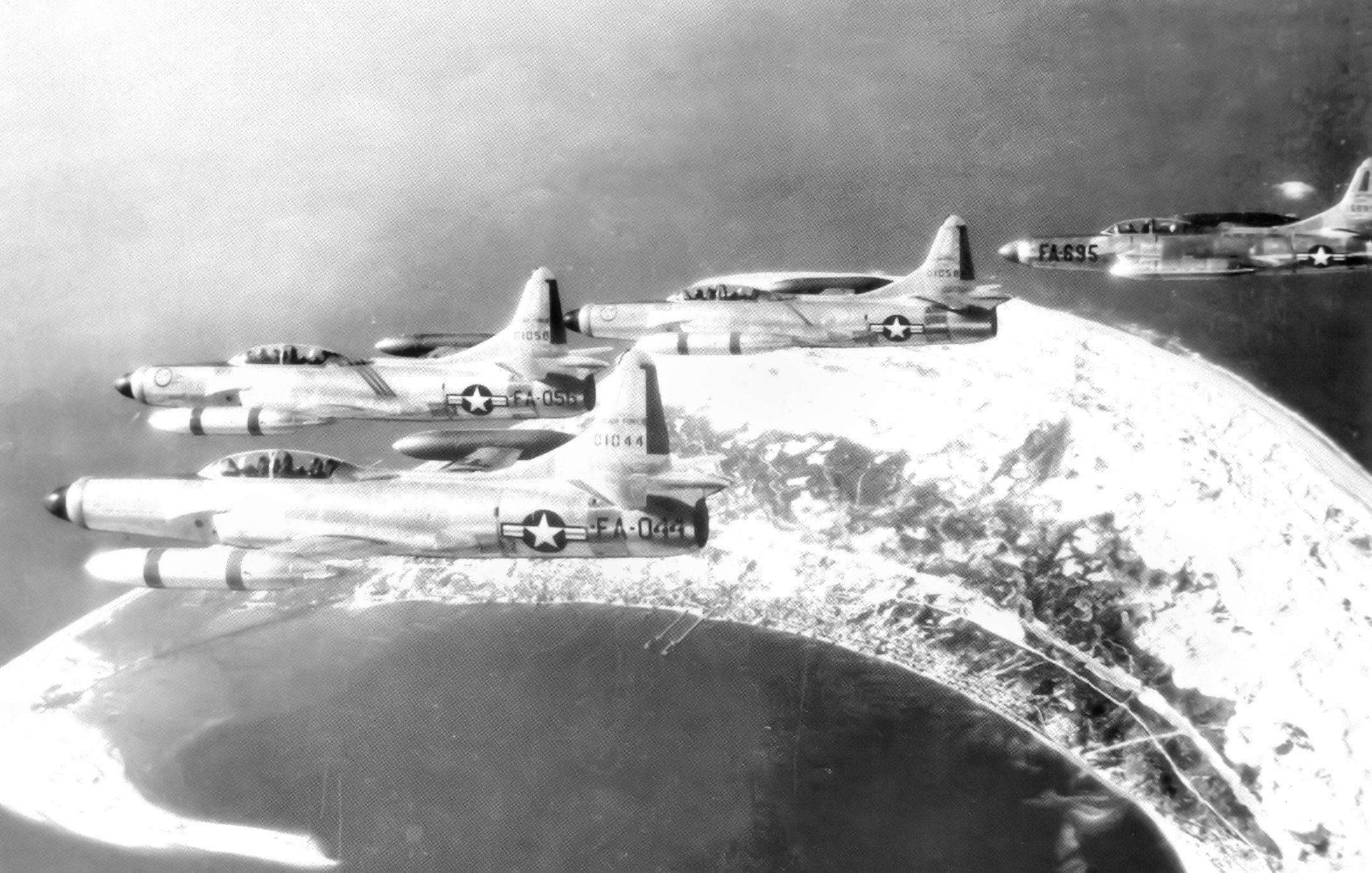 437th Fighter-Interceptor Squadron F-94s over Provincetown, Massachusetts in 1953. Stationed at Otis Air Force Base, Massachusetts. Identified aircraft are: Lockheed F-94C-1-LO Starfire 50-1044; 50-1056, 50-1058, and 51-5698, "Chappie's Chariot", FA-056 flown by Major Chappie James marked in commander's stripes.